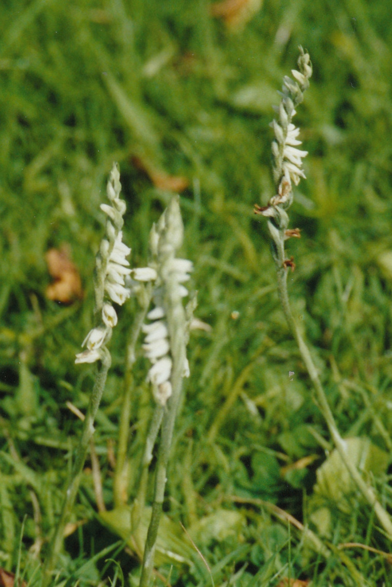 Ladies tresses (Spiranthes spiralis) in Tyntesfield lawn